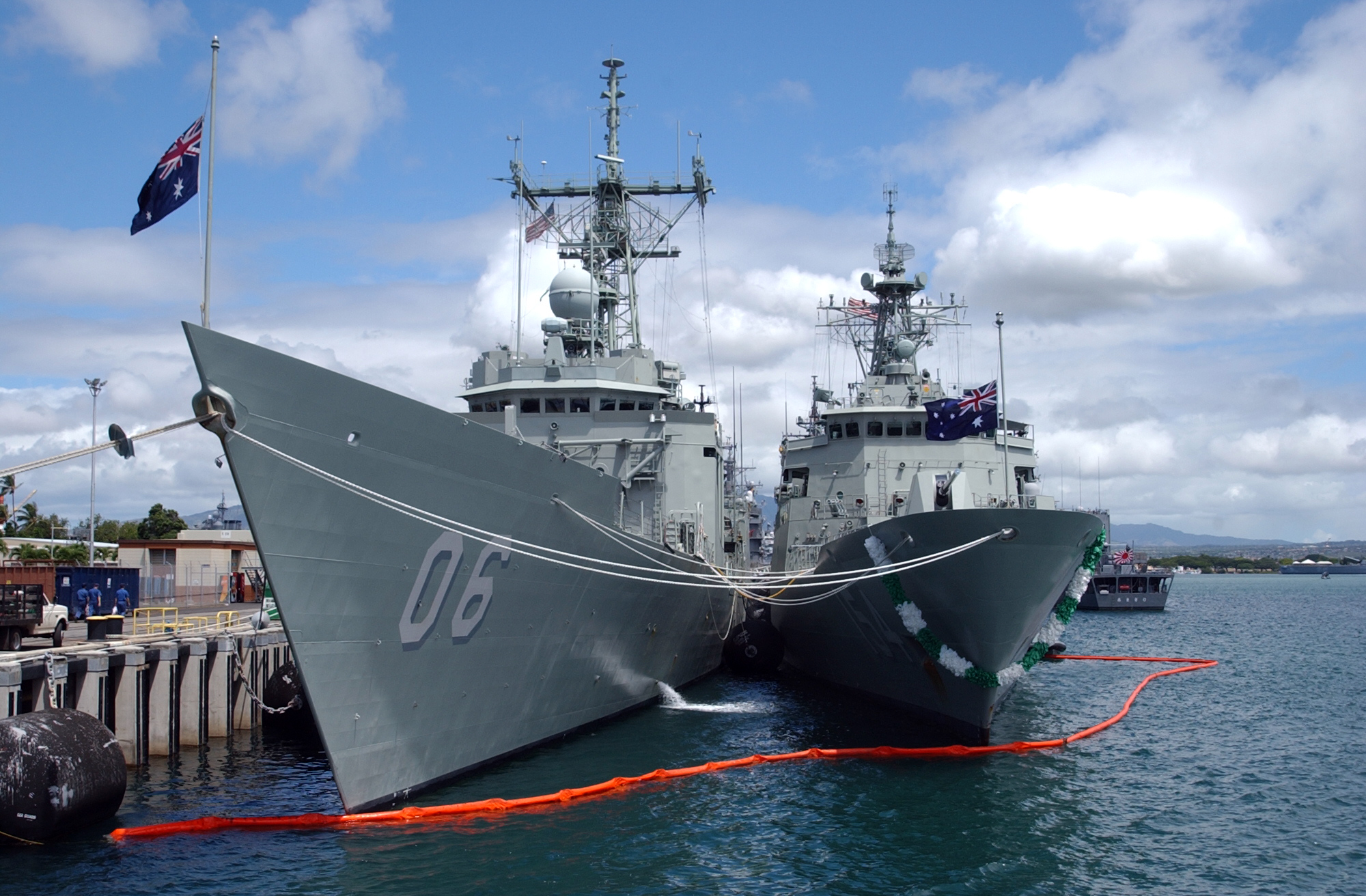 Pearl Harbor, Hawaii (June 28, 2004) - The Royal Australian Navy Adelaide-class frigate HMAS Newcastle (FFG 06) and the Anzac-class HMAS Parramatta (FFH 154) are moored pier side at Naval Station Pearl Harbor as they await the beginning of the multi-national maritime exercise Rim of the Pacific 2004 (RIMPAC). RIMPAC is the largest international maritime exercise in the waters around the Hawaiian Islands. This years exercise will include seven participating nations; Australia, Canada, Chile, Japan, South Korea, Britain and the United States. RIMPAC is intended to enhance the tactical proficiency of participating units in a wide array of combined operations at sea, while enhancing stability in the Pacific Rim region. U.S. Navy photo by Photographer's Mate 1st Class Michelle R. Hammond (RELEASED)